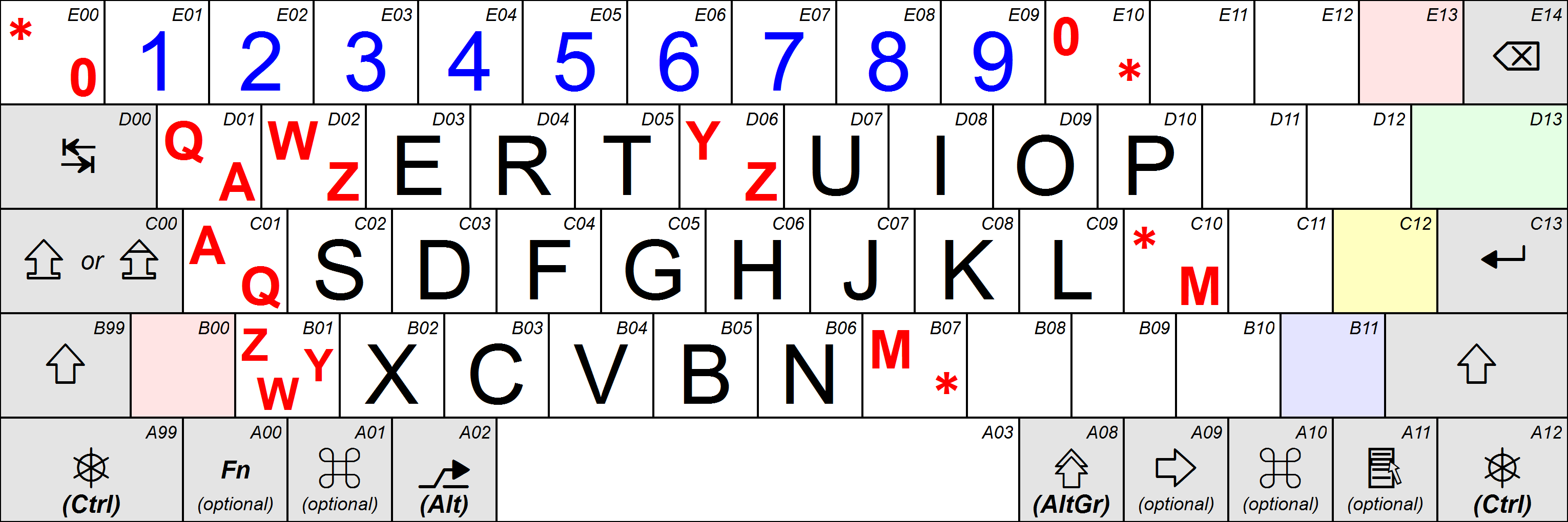 Showing the alphanumeric section of a keyboard according to ISO/IEC 9995-2, highlighting some features specified in that standard